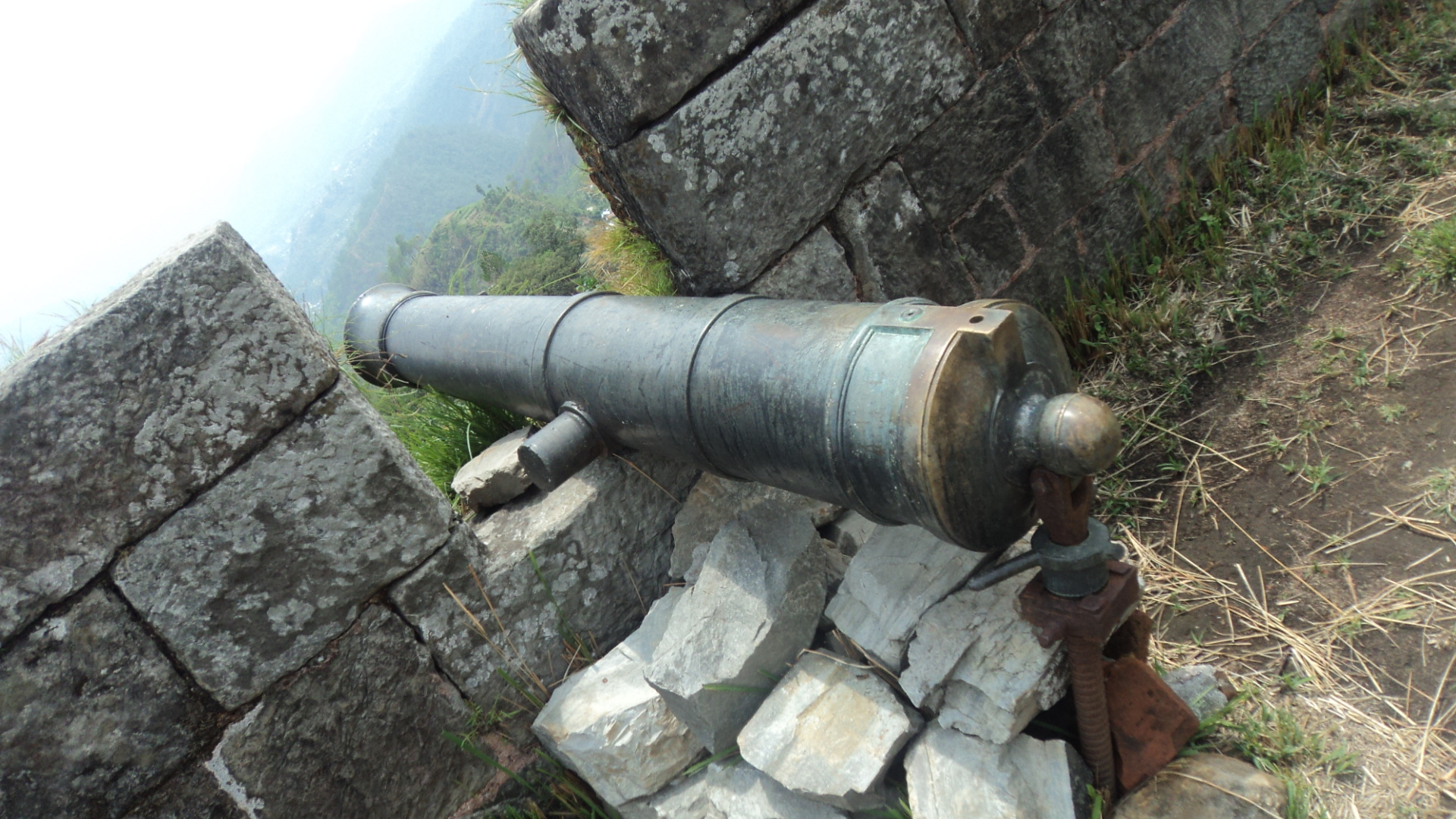 A cannon in Makwanpur gadhi, Nepal.